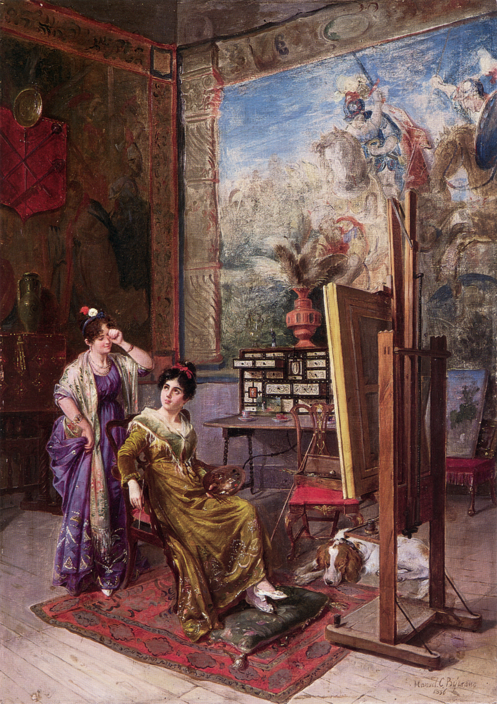 Manuel Cabral Aguado-Bejarano : In the Artist's Studio